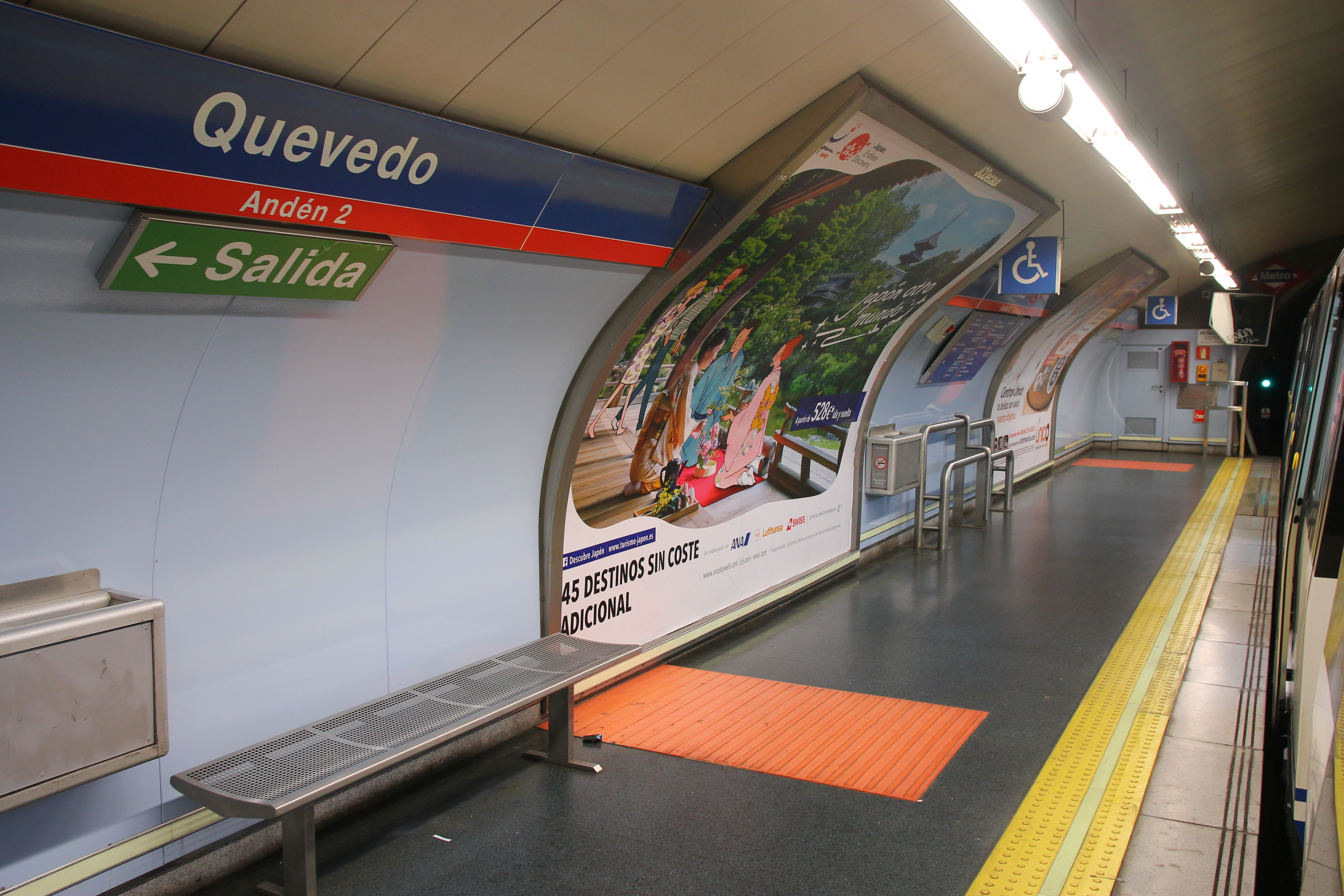 Estación de Quevedo